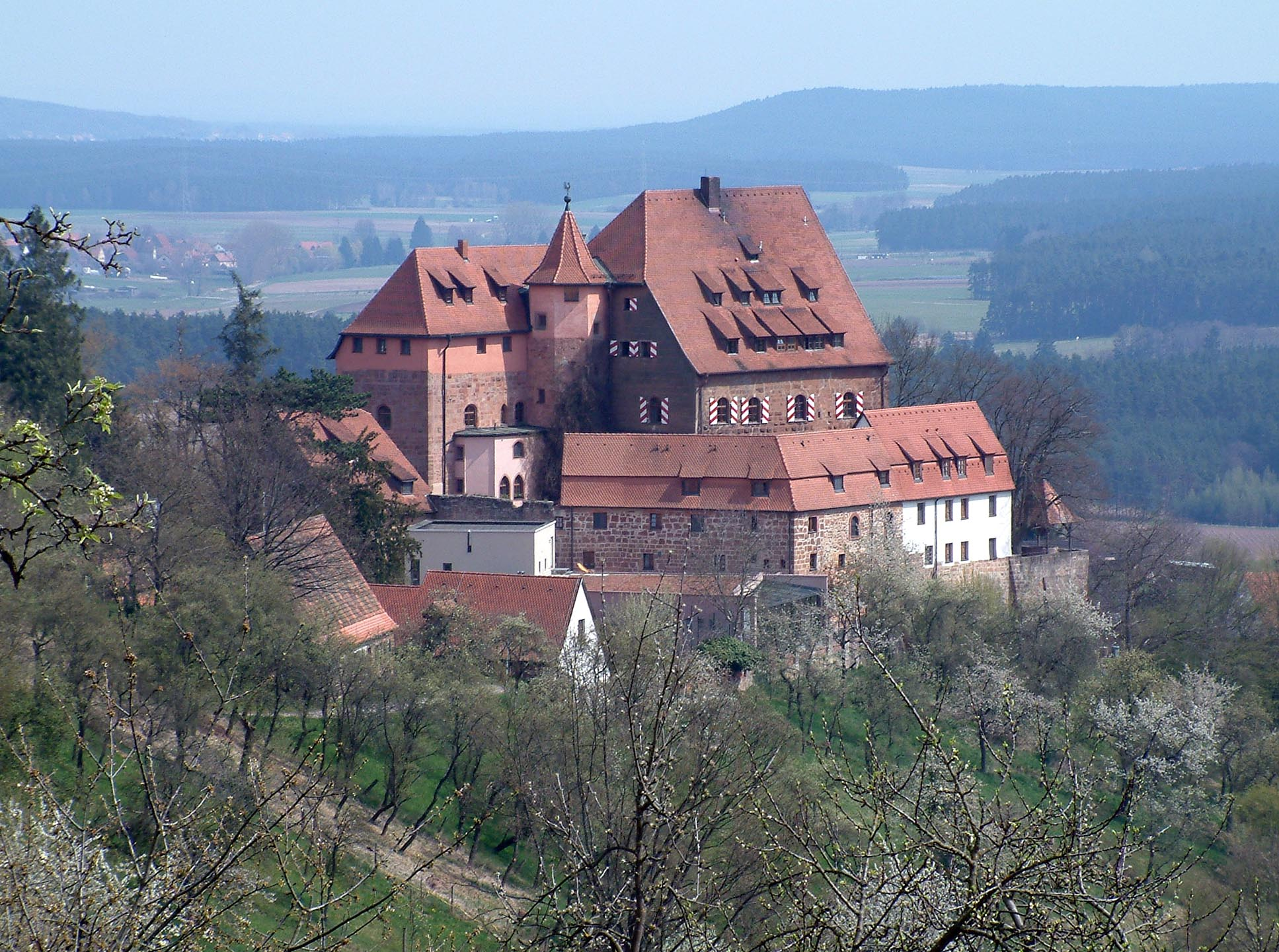 Burg Wernfels von Thailenberg aus gesehen The Castle Wernfels near the town Spalt in Frankonia, Germany, seen from the village Thailenberg.